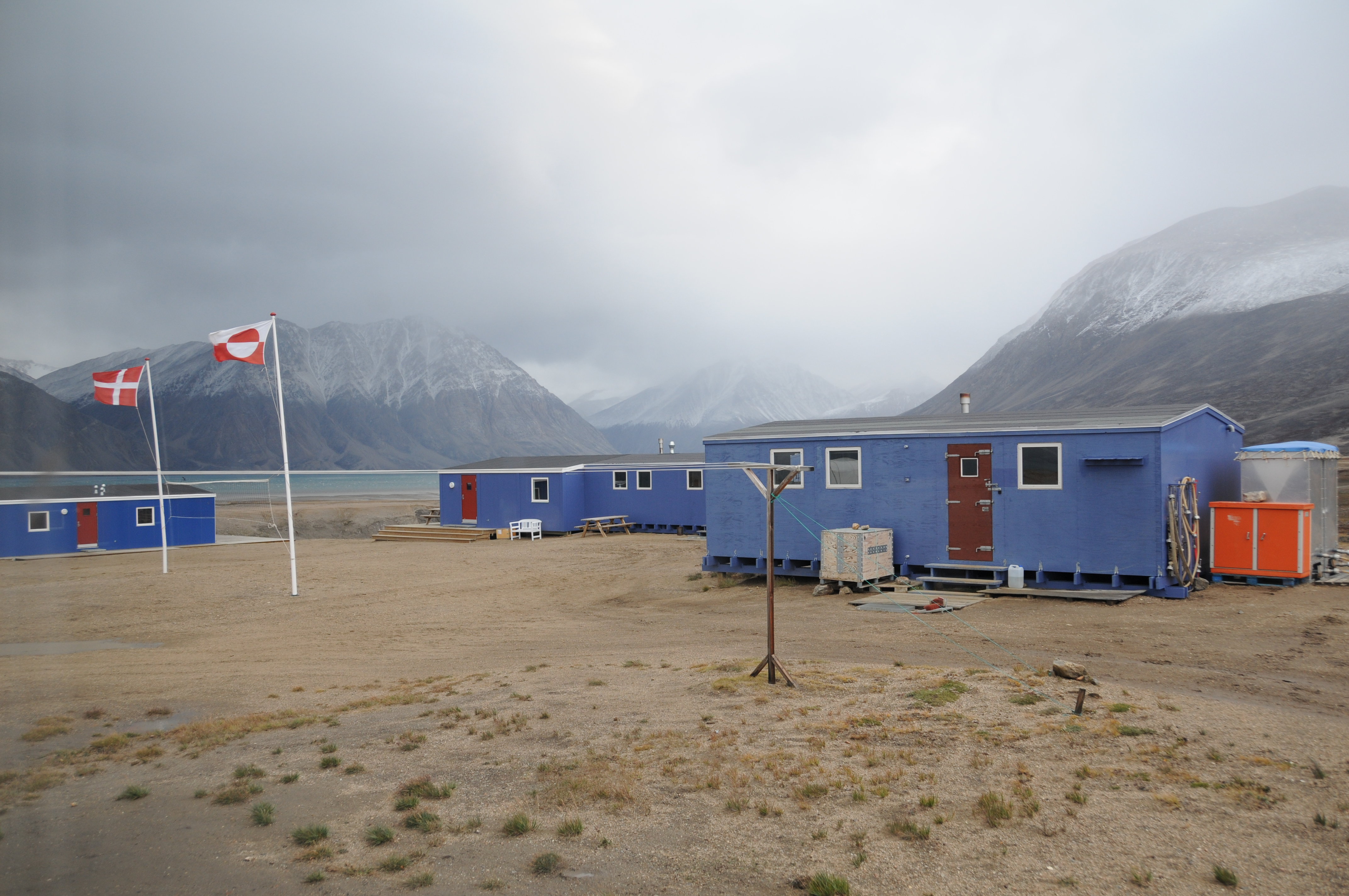 Research station Zackenberg in northeastern Greenland. Foto: Kristian Hassel, NTNU Vitenskapsmuseet.